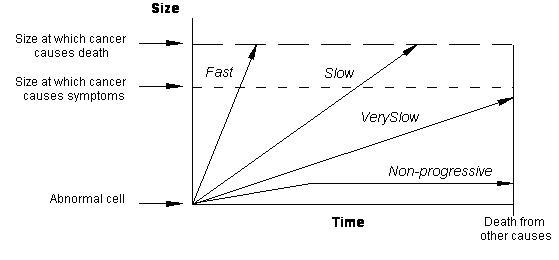 This figure shows the heterogeneity of cancer progression using 4 arrows to represent 4 categories of cancer progression.